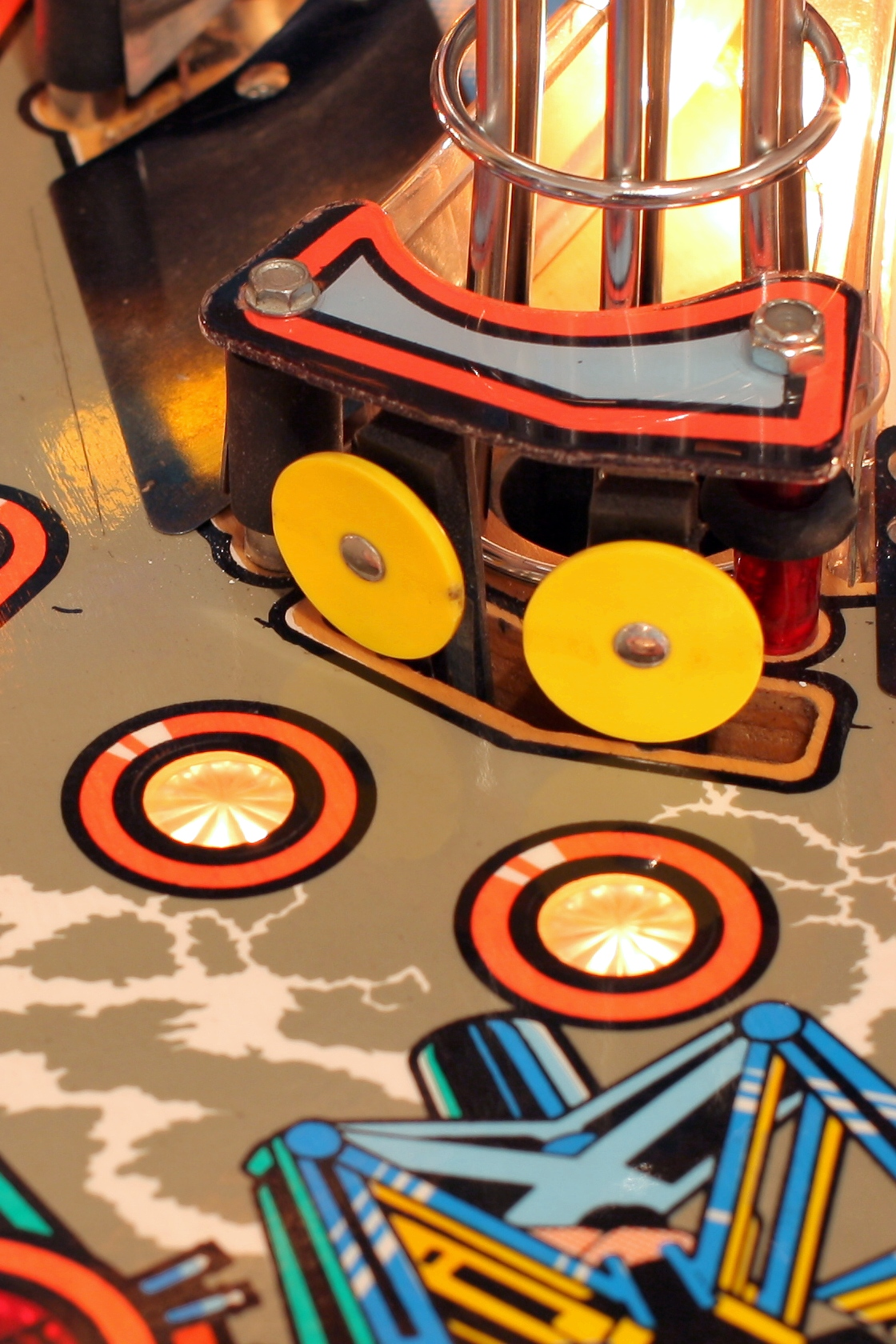 Right Target of the Williams pinball game "Demolition Man"